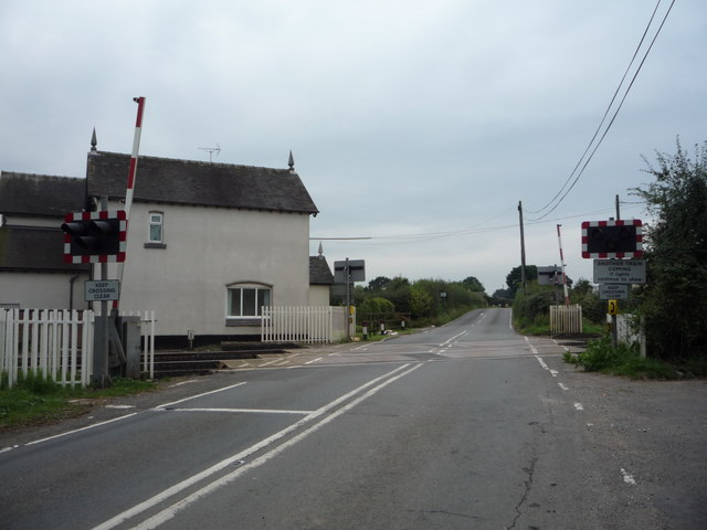 Level crossing and crossing house on the B5027